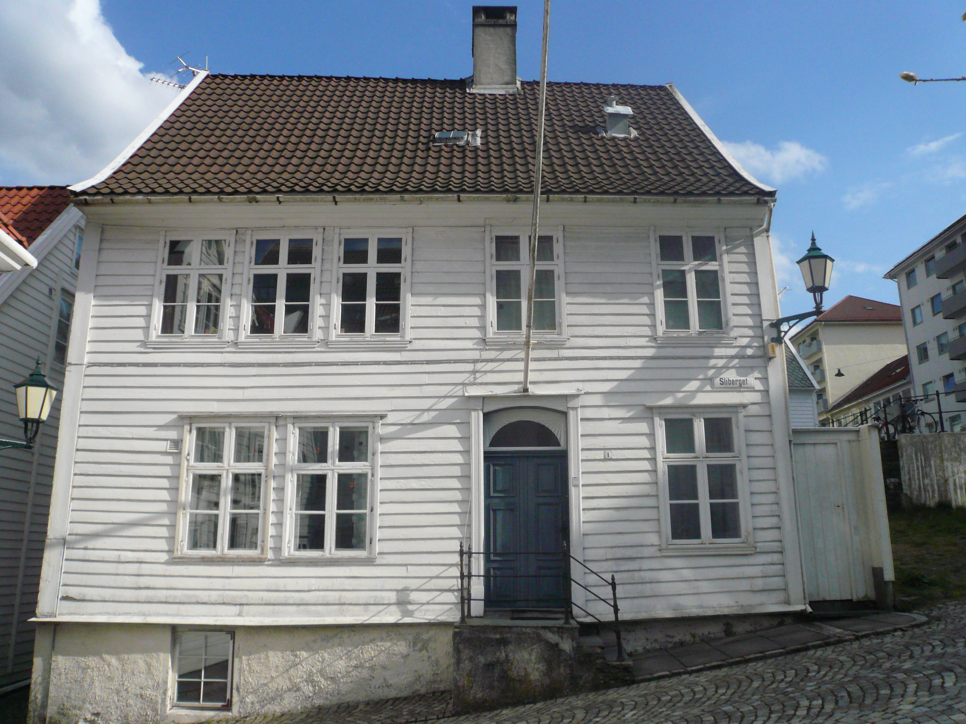 Sliberget 1, Bergen, Norway